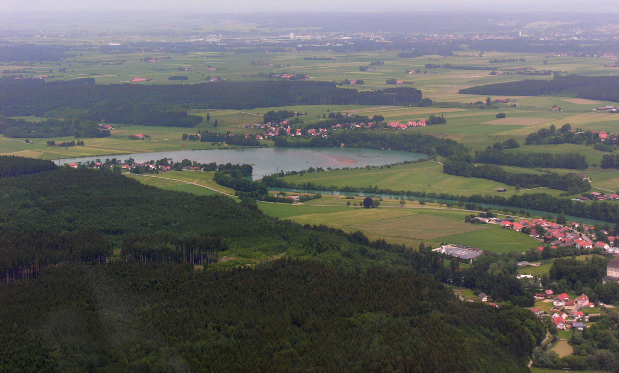 Germany, Bavaria, Iller (river) and Kardorf